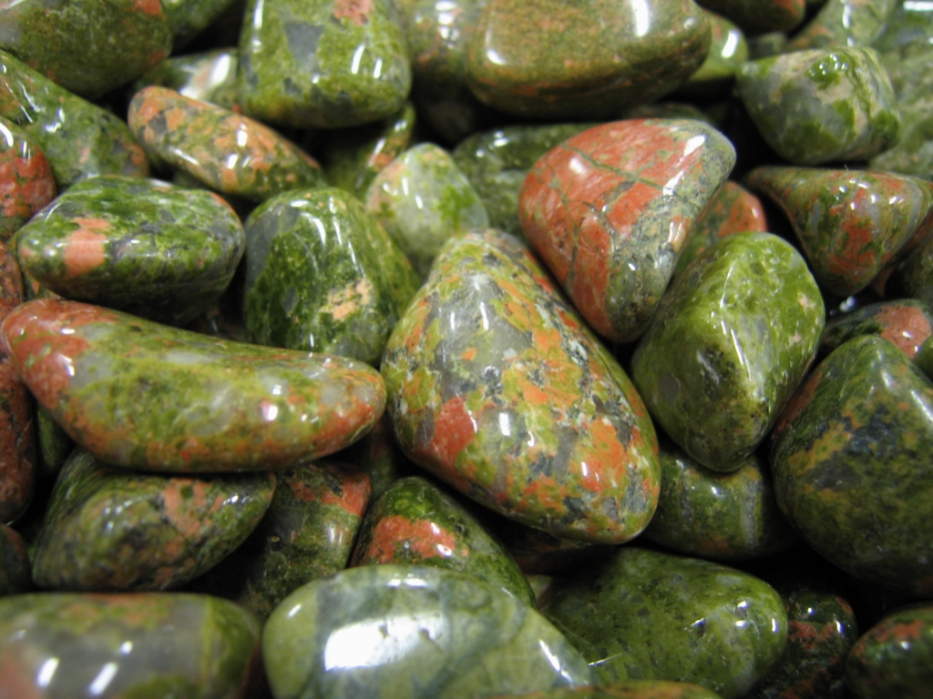 Metamorphic rock with various minerals (green: Epidote, red: Feldspar, white: Quartz) as drum (tumble)-polished stones